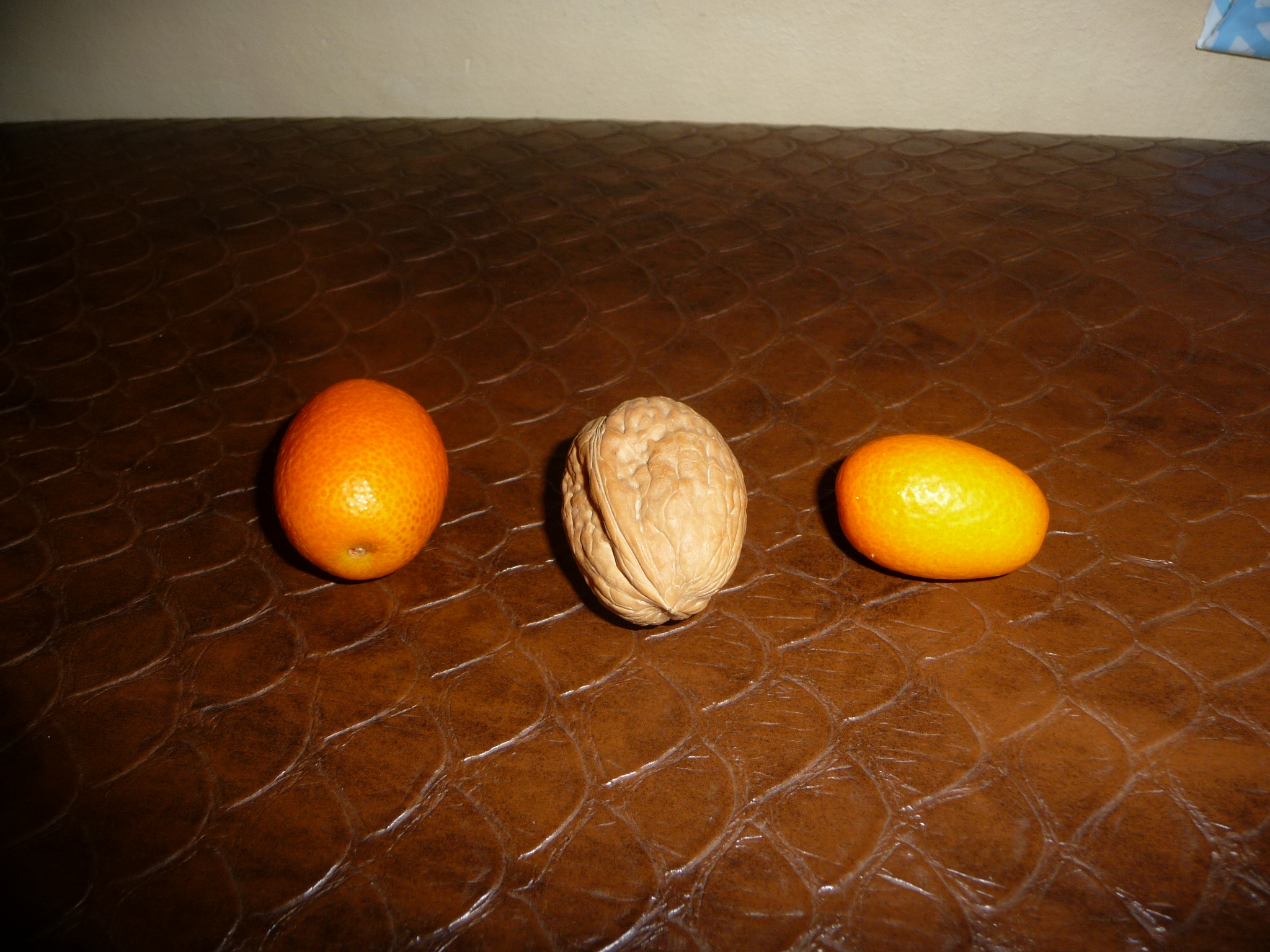 Calamondina oranges and a nut to compare size. ×Citrofortunella microcarpa (Calamondin).